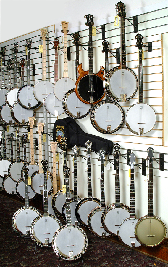 The showroom of Elderly Instruments in Lansing, Michigan